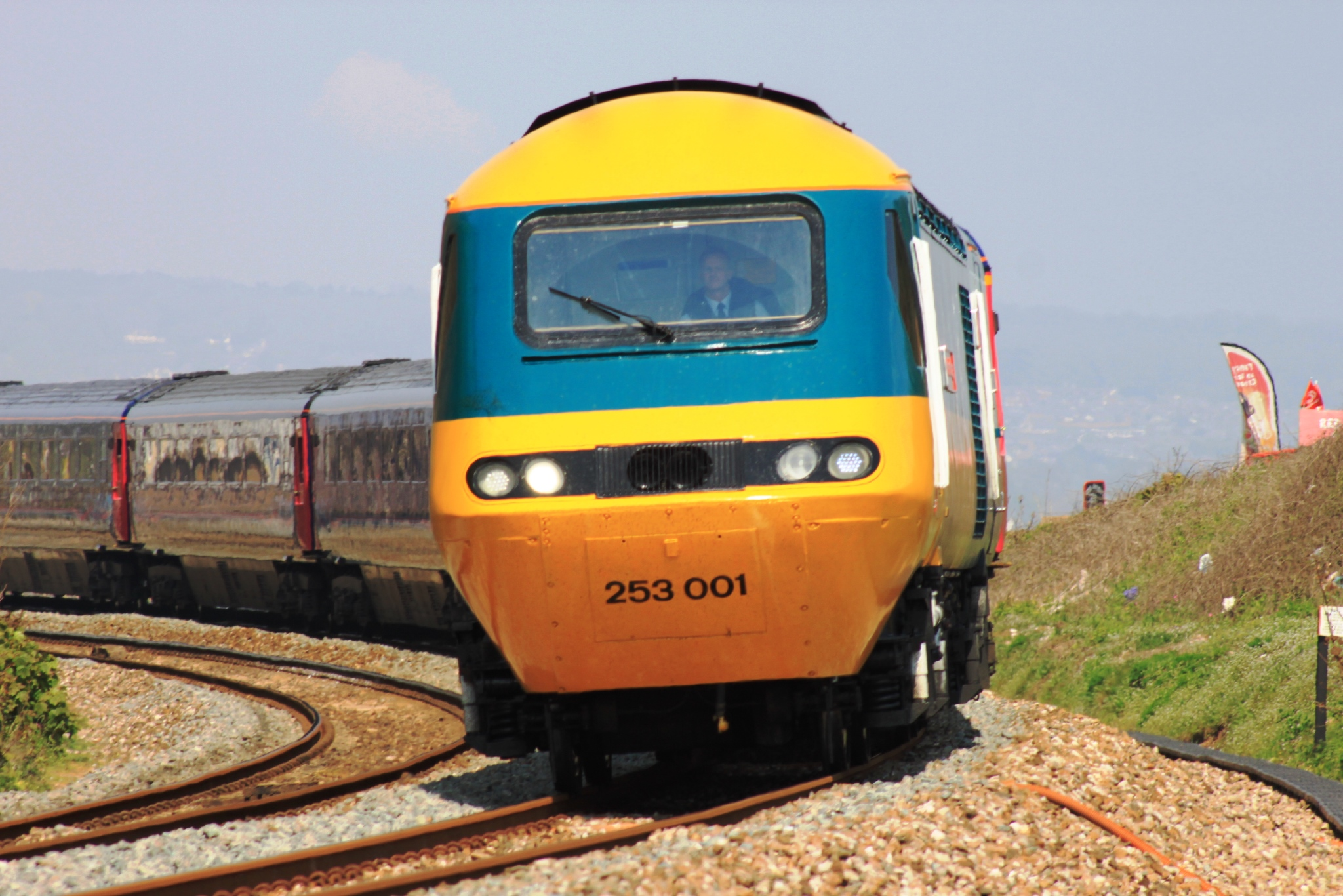 The 'Royal Duchy' from London to Penzance sweeps around the curve at Dawlish Warren onto the sea wall behind Great Western Railway's heritage power car 43002. It was revealed in its original colour scheme (from 1976) just a few days ago. The restoration goes as far as to reinstate the unit number 253001 on the front; it had been envisaged that these InterCity 125s would work in fixed train sets which were known as class 253.